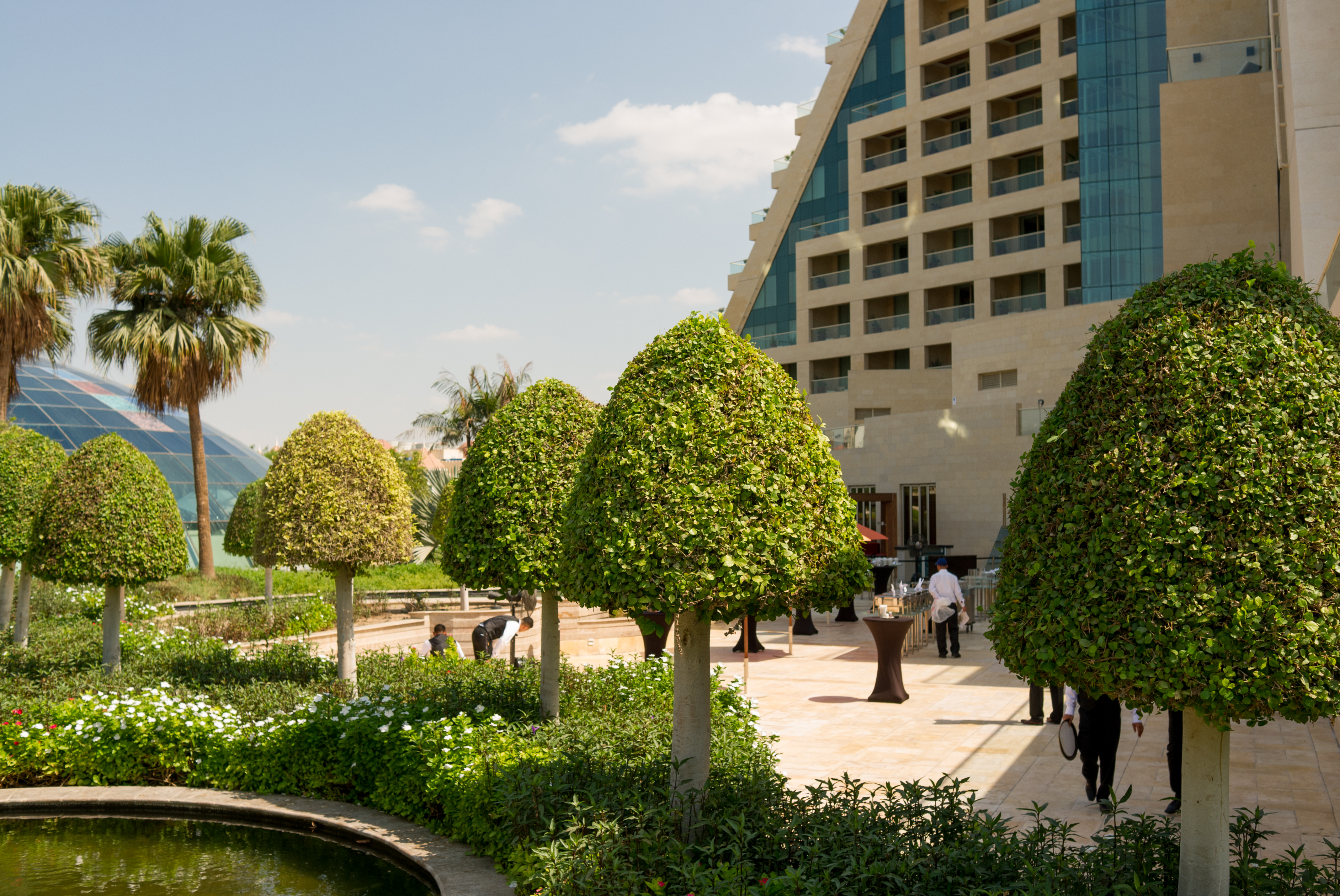 Hotel Raffles Dubai in 2012 (view of the garden on the 3rd floor).